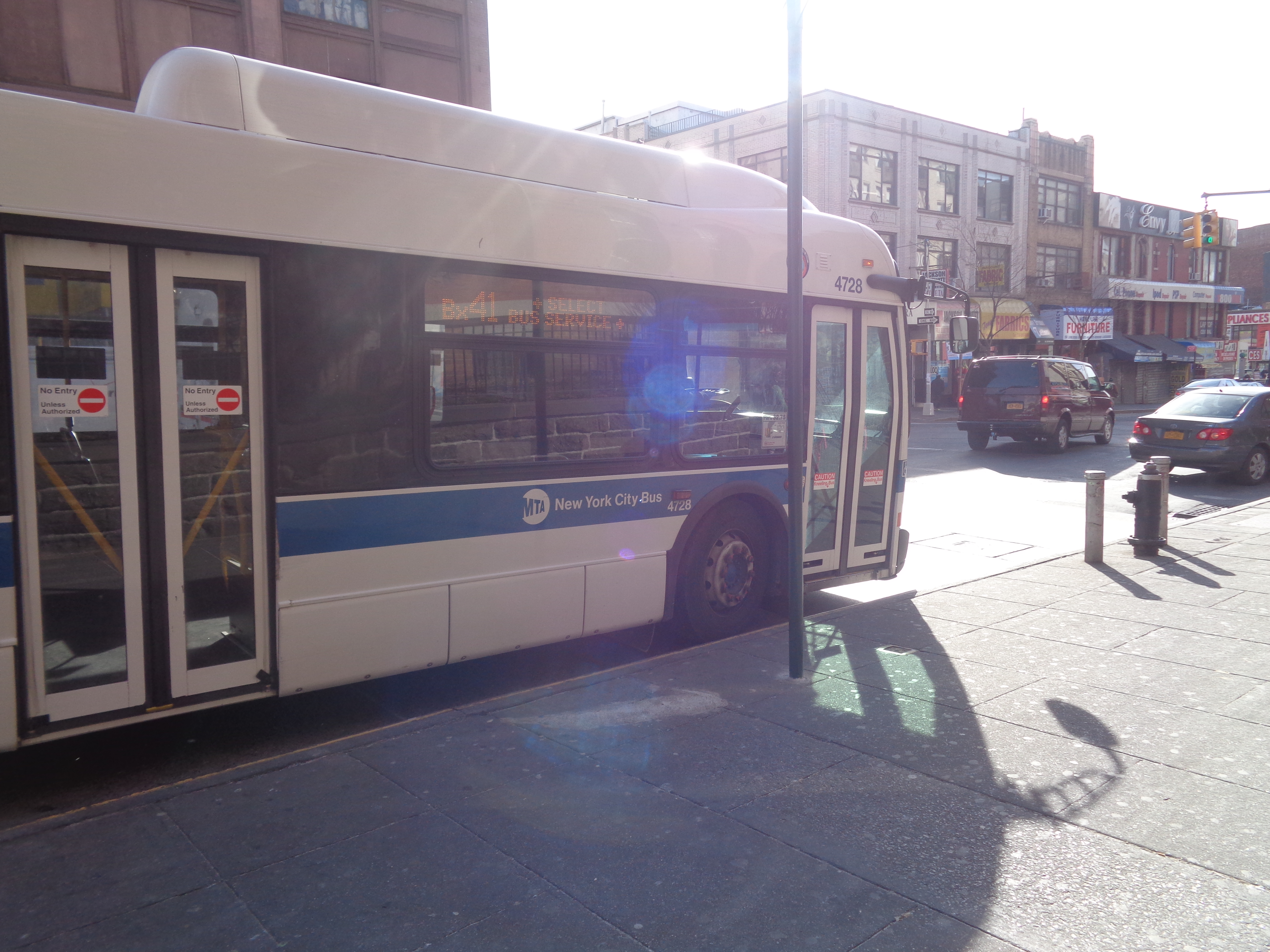 An unwrapped Bx41 Select Bus Service terminating at Melrose Avenue and 150th Street in The Hub, Bronx.